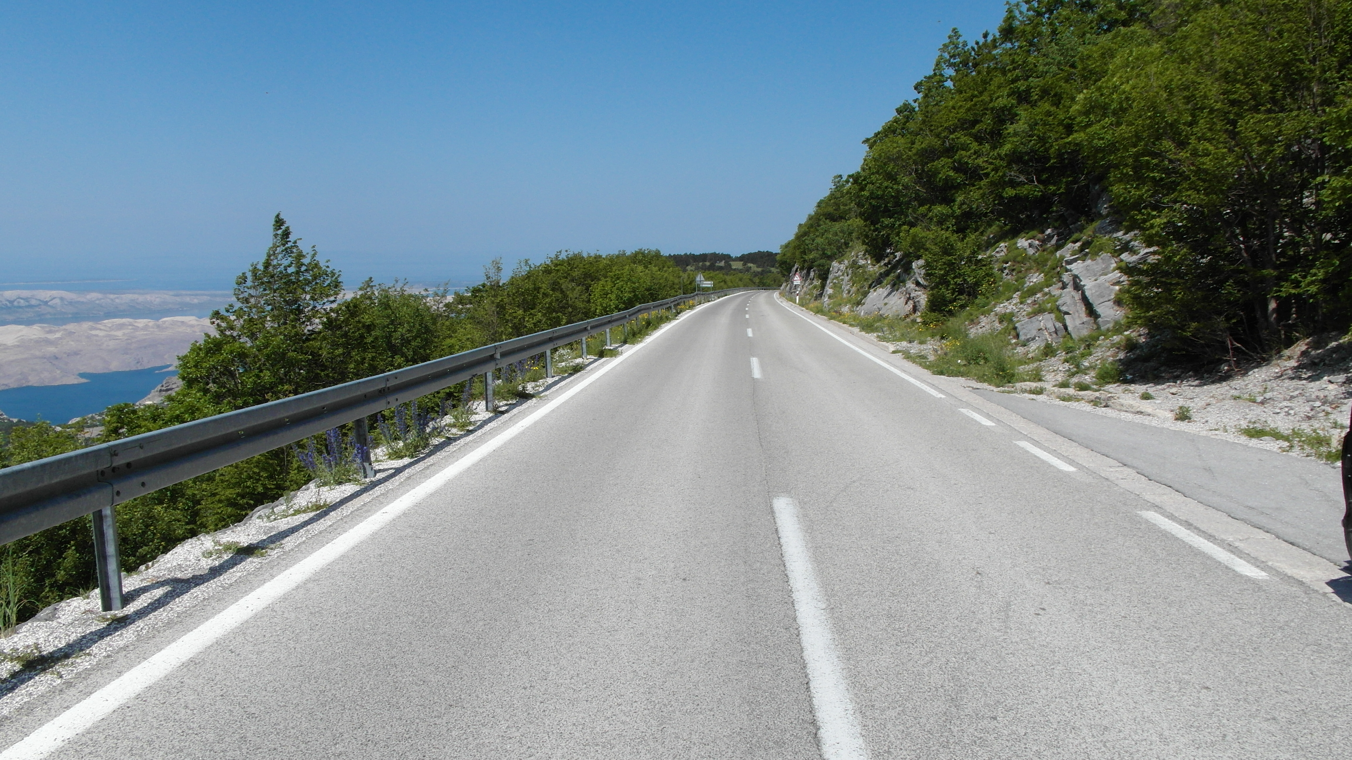 CESTA K MORU - ROAD TO THE SEA